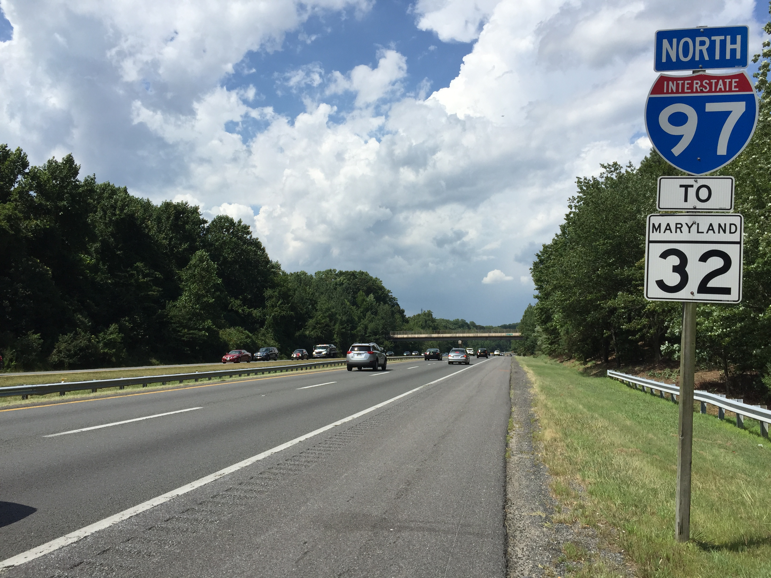 View north along Interstate 97 (Patuxent Freeway) just south of Farm Road in Crownsville, Anne Arundel County, Maryland